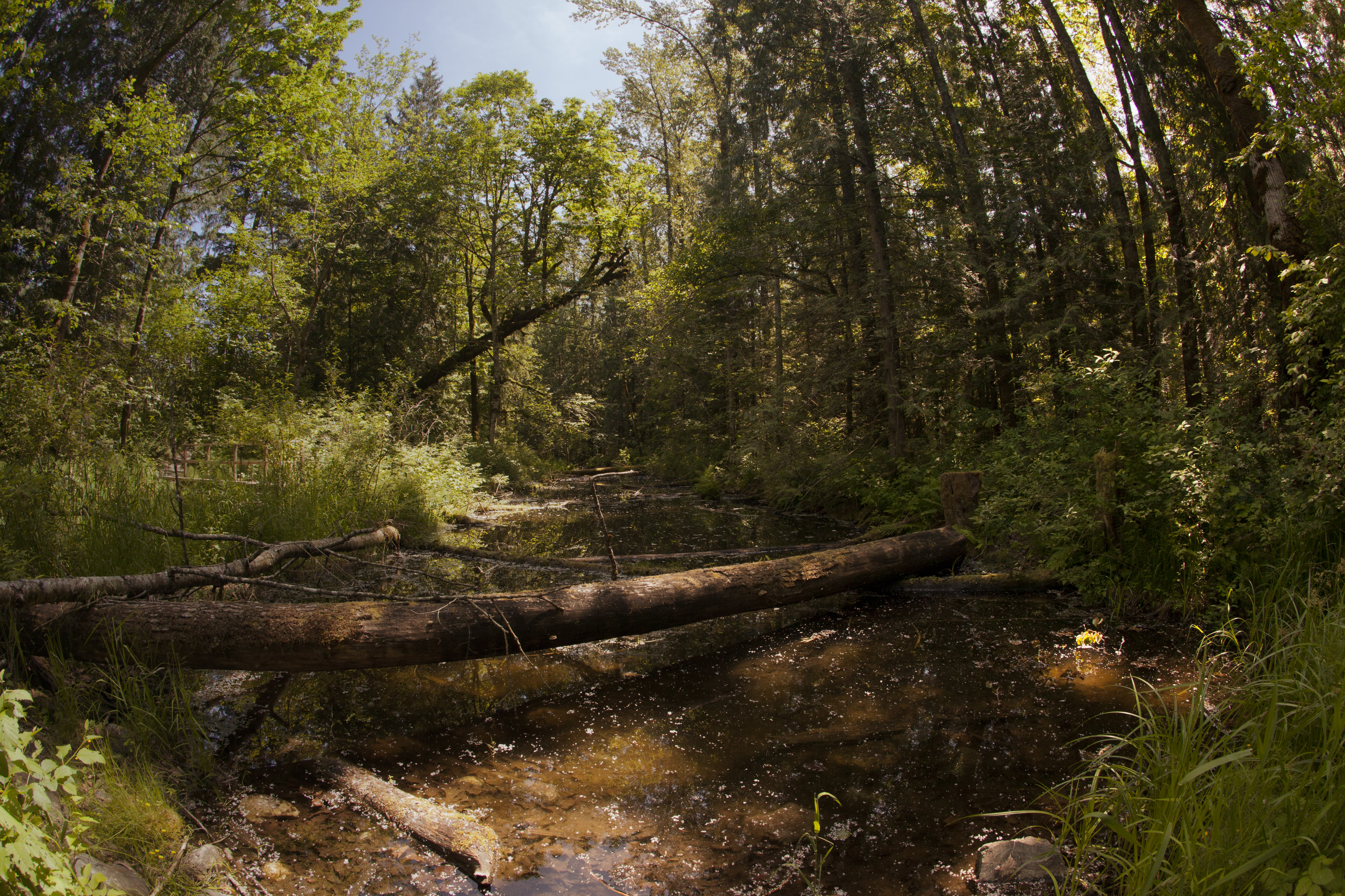 Chilliwack River Provincial Park. British Columbia, Canada. Latitude: 49.078883, Longitude: -121.880482 Altitude: 85m This photo was taken in a protected area in Canada, Wikidata item Chilliwack River Provincial Park (Q5099102)